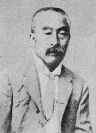 Kawakami Kinichi.